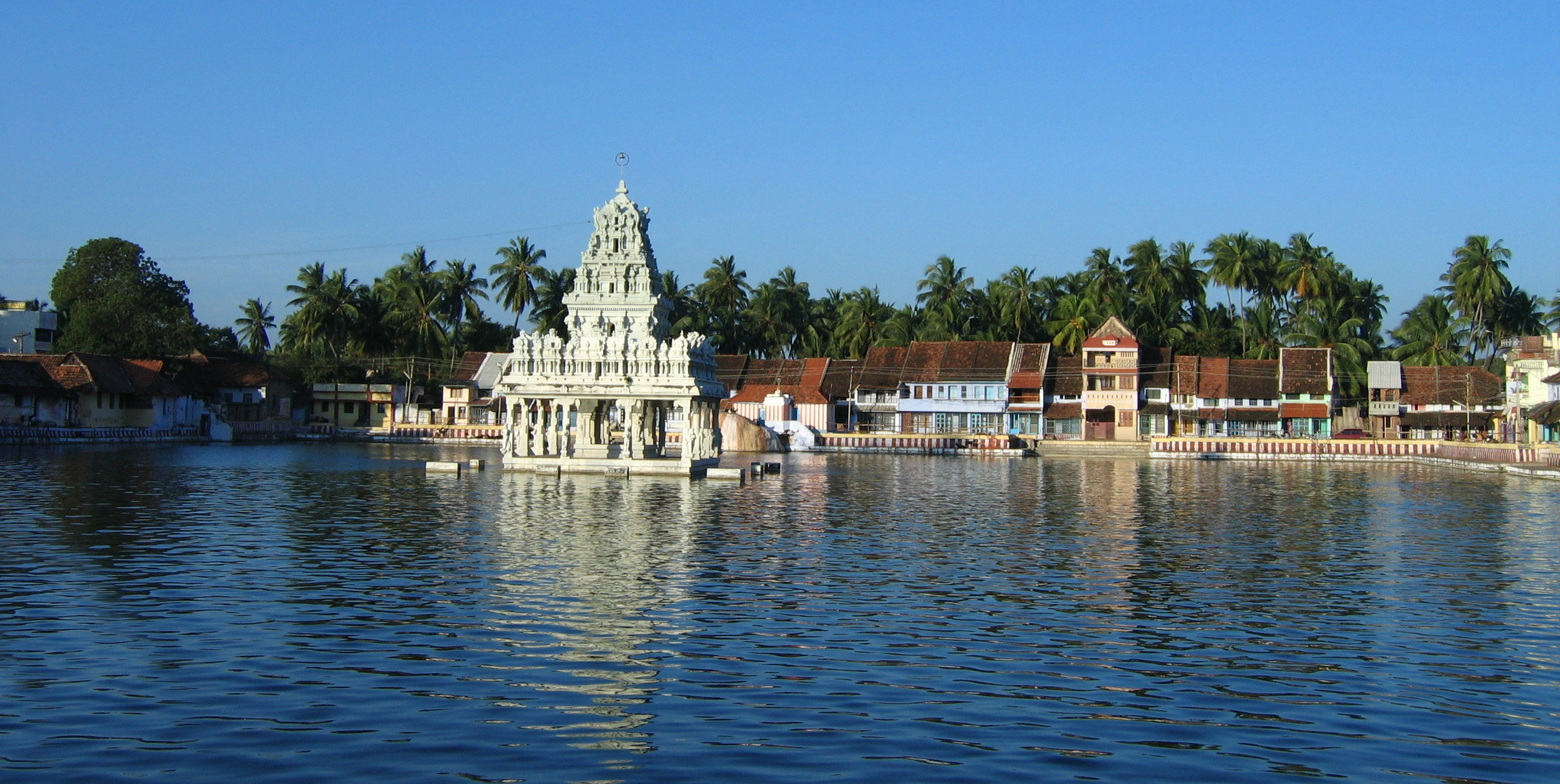 Suchindram - Thanumalayan Temple